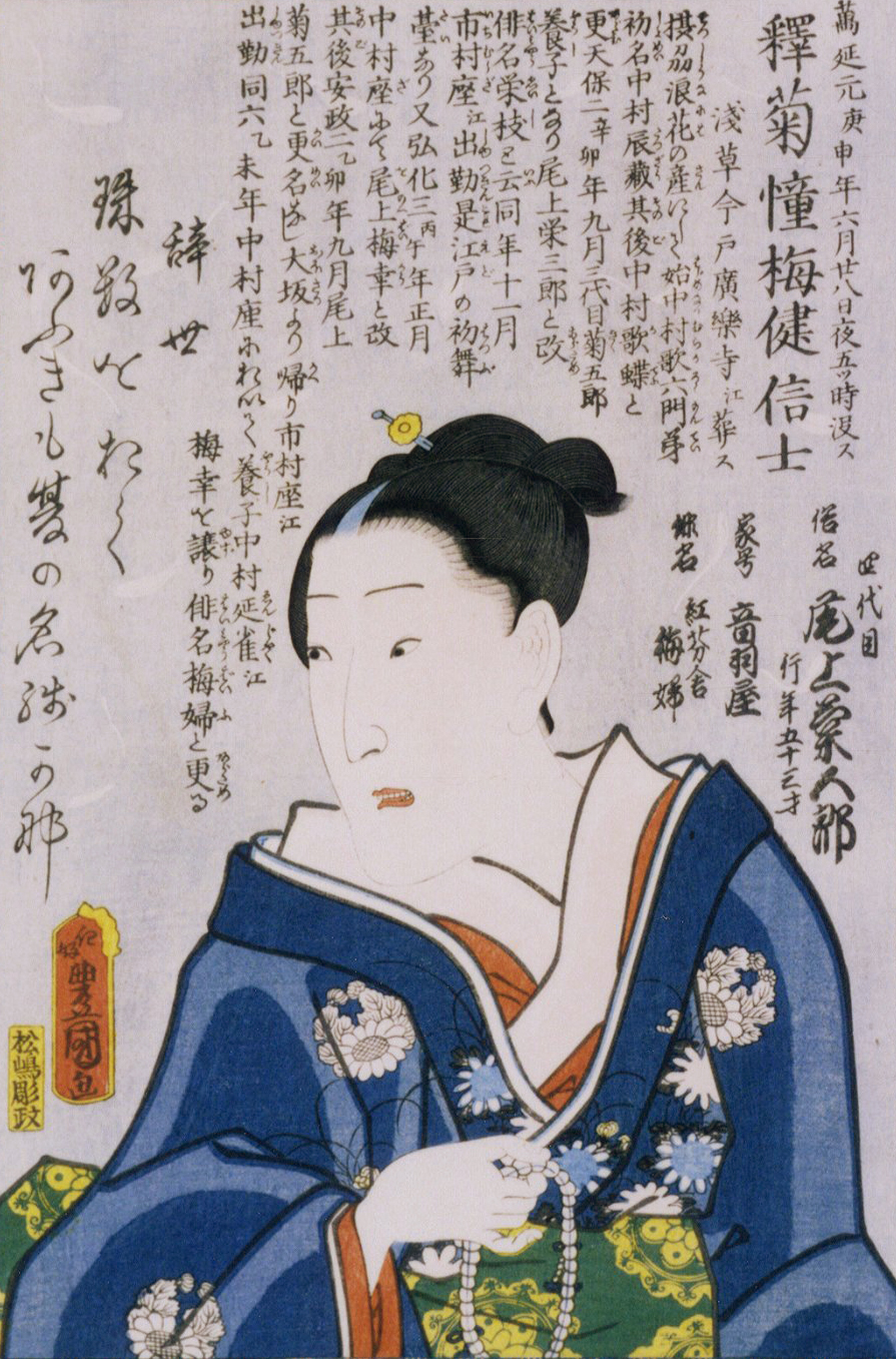 Kikugrō Onoe IV Obituary by Toyokuni Utagawa III